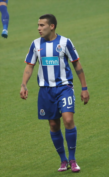 Nicolás Otamendi